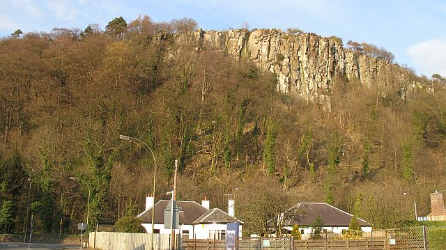 Abbey Craig Crags on the hill that carries Stirling's favourite eyesore - the statue of Wallace. (The monument is a bit of a blot on the landscape too mind). The loose rock of these crags is prone to fall on the road below, which is protected by netting, barriers and a ban on climbing.